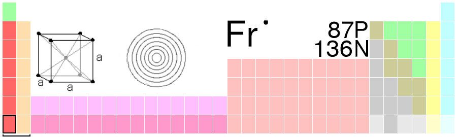 Image by Daniel Mayer or GreatPatton and released under terms of the GNU FDL